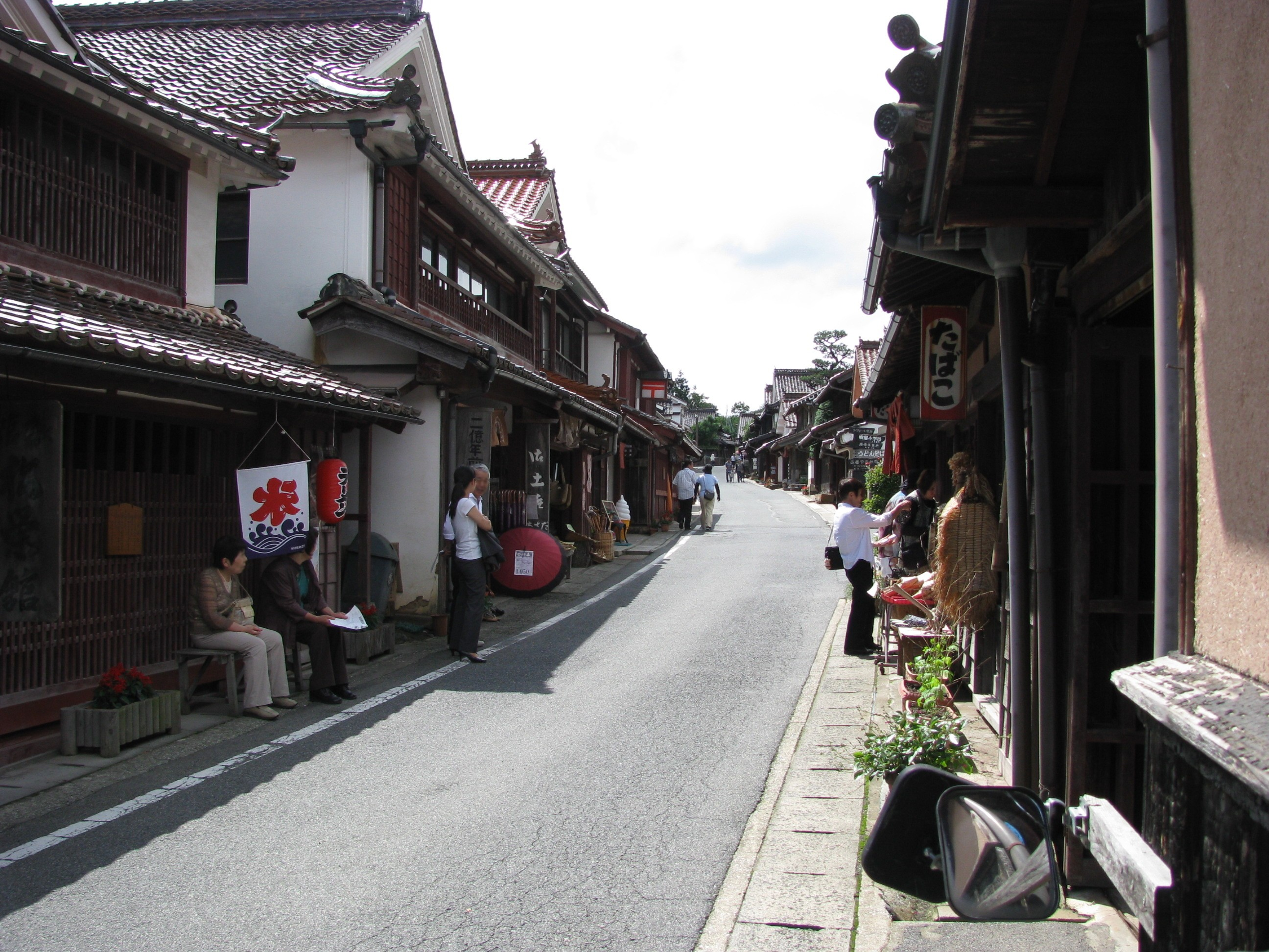 The Fukiya is old small Hamlet. This place is Takahashi, Okayama, Japan.